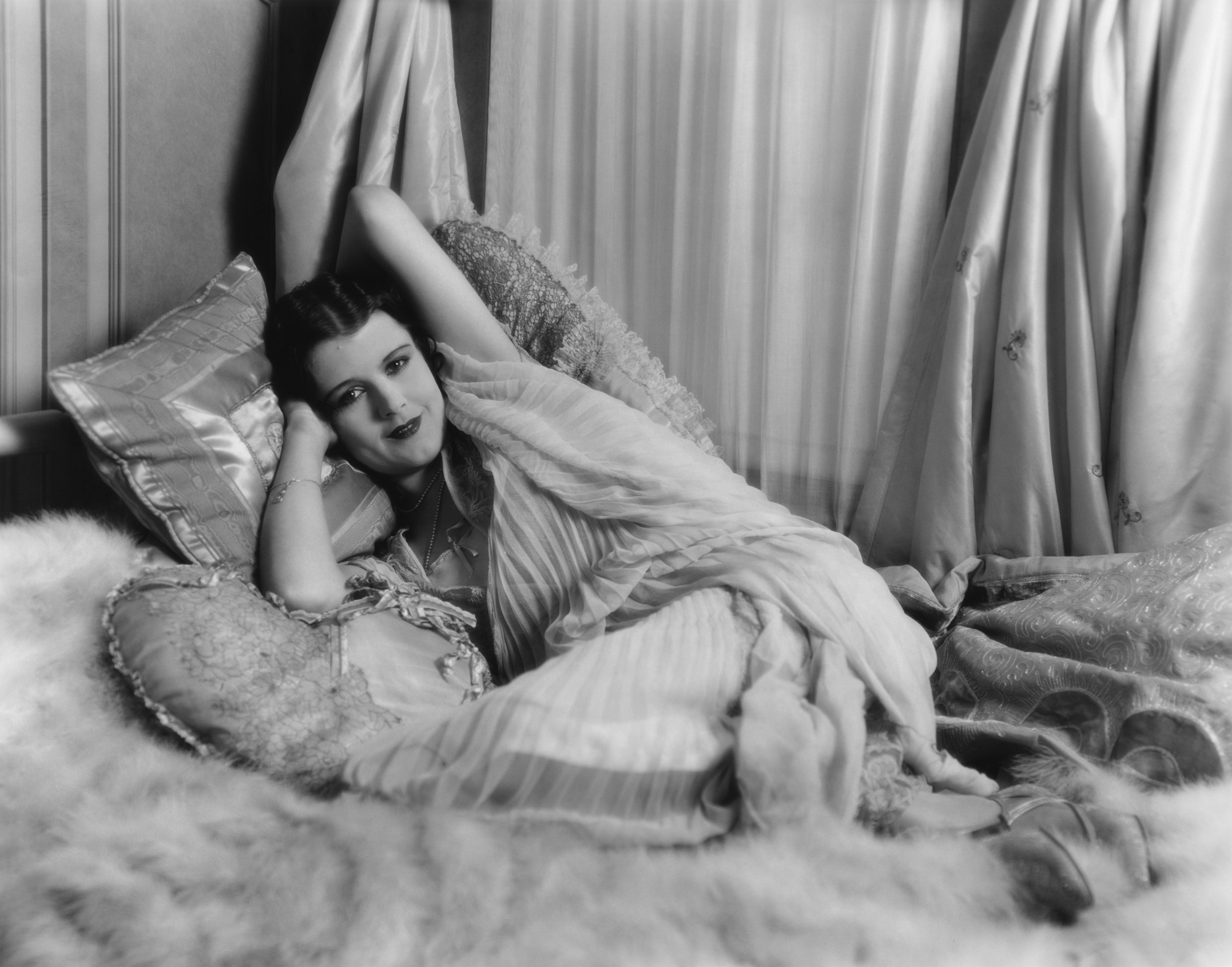 June Collyer in Extravagance - publicity still